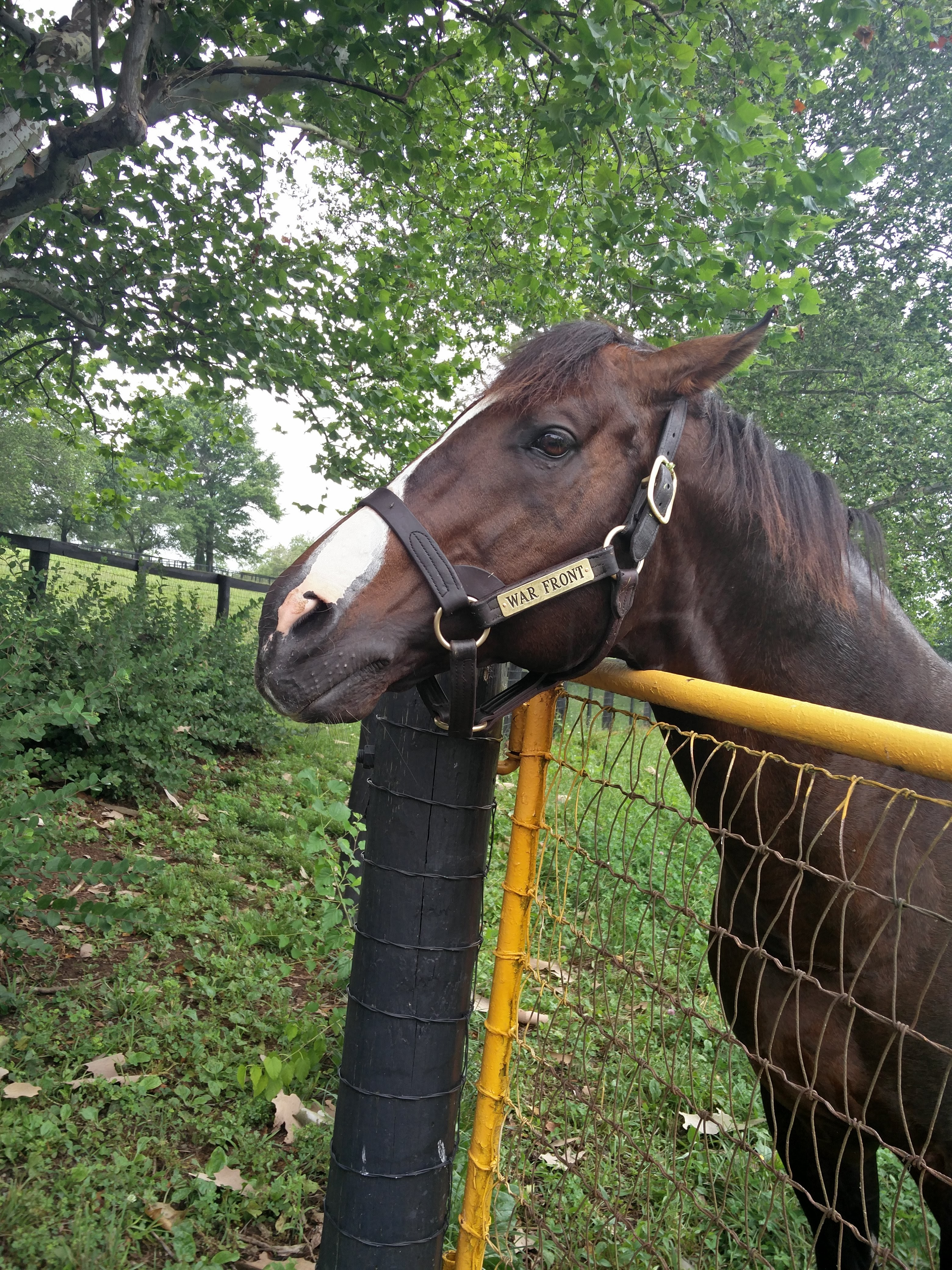 Claiborne Farms - War Front Feel free to use this photo however you like, just attribute . Thanks!